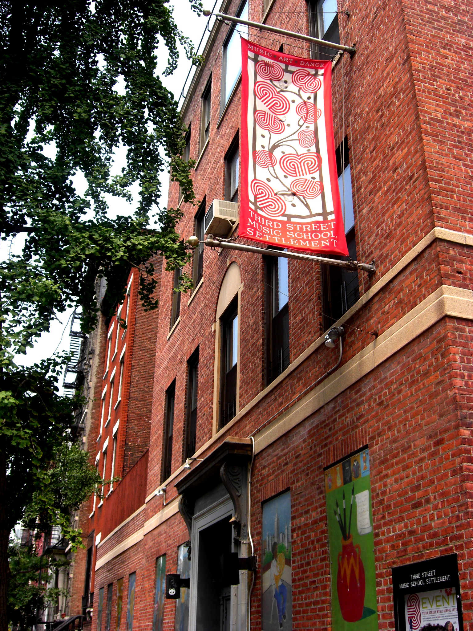 Photo of Third Street School Music School building on 11th Street between 2nd and 3rd Avenues in the East Village neighborhood of Manhattan, New York City.